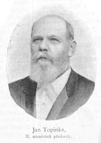 Portrait of Jan Drozd (1837-1916), Czech politician and financier